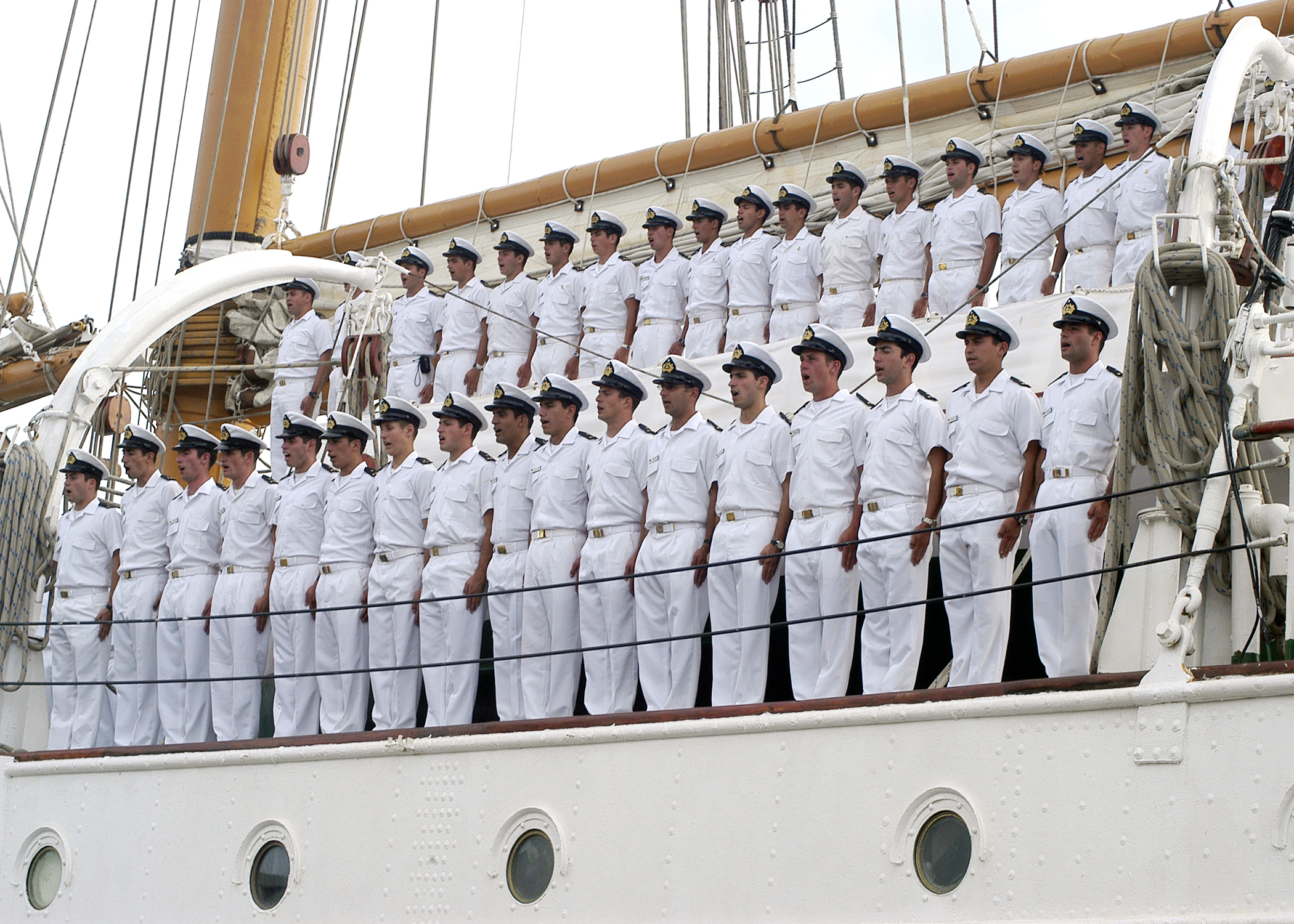 Pearl Harbor, Hawaii (May 18, 2004) - Chilean crew members aboard the training vessel "Esmeralda" (BE 43) sing the Chilean Navy Hymn during the barquentine's departure from Pearl Harbor, Hawaii. The Esmeralda is taking part in a 196-day training cruise with a crew of 300 sailors and 90 midshipmen. The midshipmen recently finished a four-year naval academy training program and will finish their fifth year with a cruise around the world aboard Esmeralda. The Esmeralda is home ported in Valparaiso, Chile. U.S. Navy photo by Photographer's Mate 2nd Class John F. Looney (RELEASED)